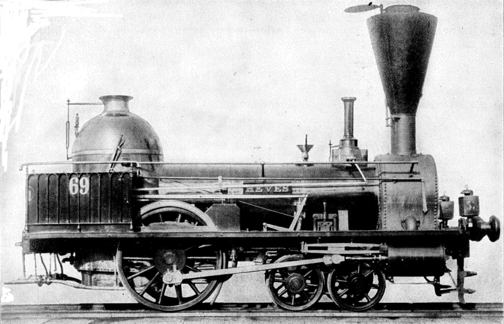 Steamlocomotive MKpV HEVES